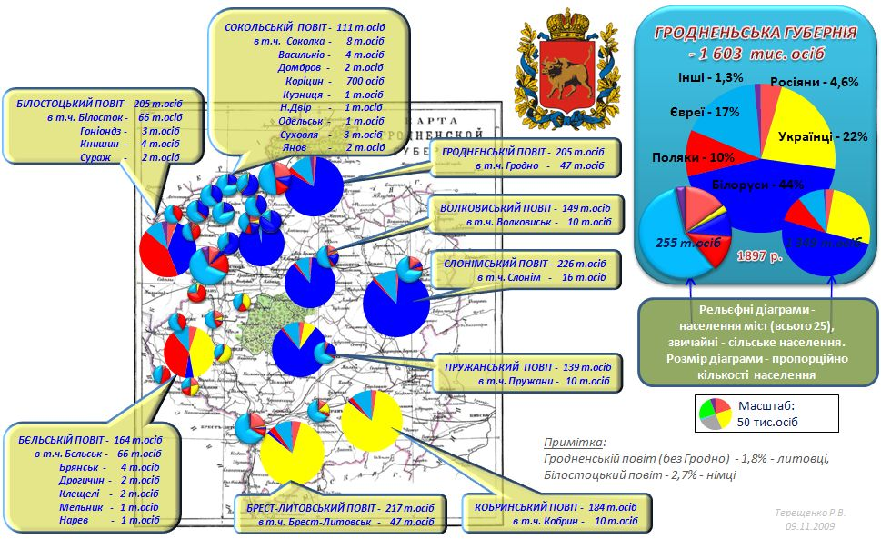 Ethnic Grodno province according to Census 1897